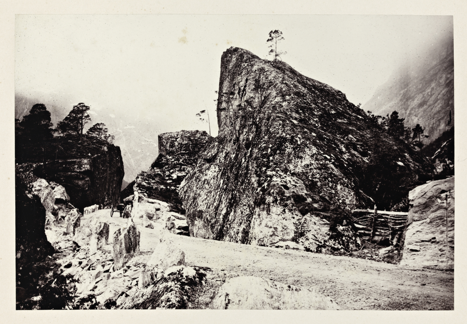 Tittel / Title: s. 37 On the Road to Veblungsnaes Motiv / Motif: Albuminkopi. Dato / Date: 1869 Fotograf / Photographer: Edward Backhouse Mounsey (1840-1911) Sted / Place: Møre og Romsdal, Rauma, Veblungsnes Eier / Owner Institution: Nasjonalbiblioteket / National Library of Norway Lenke / Link: Bildesignatur / Image Number: bldsa_Alb_BH040